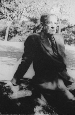 Photo of author Sherwood Anderson in Central Park Photograph of Sherwood Anderson in Central Park, 1939